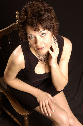 Photo of Belgin Güven